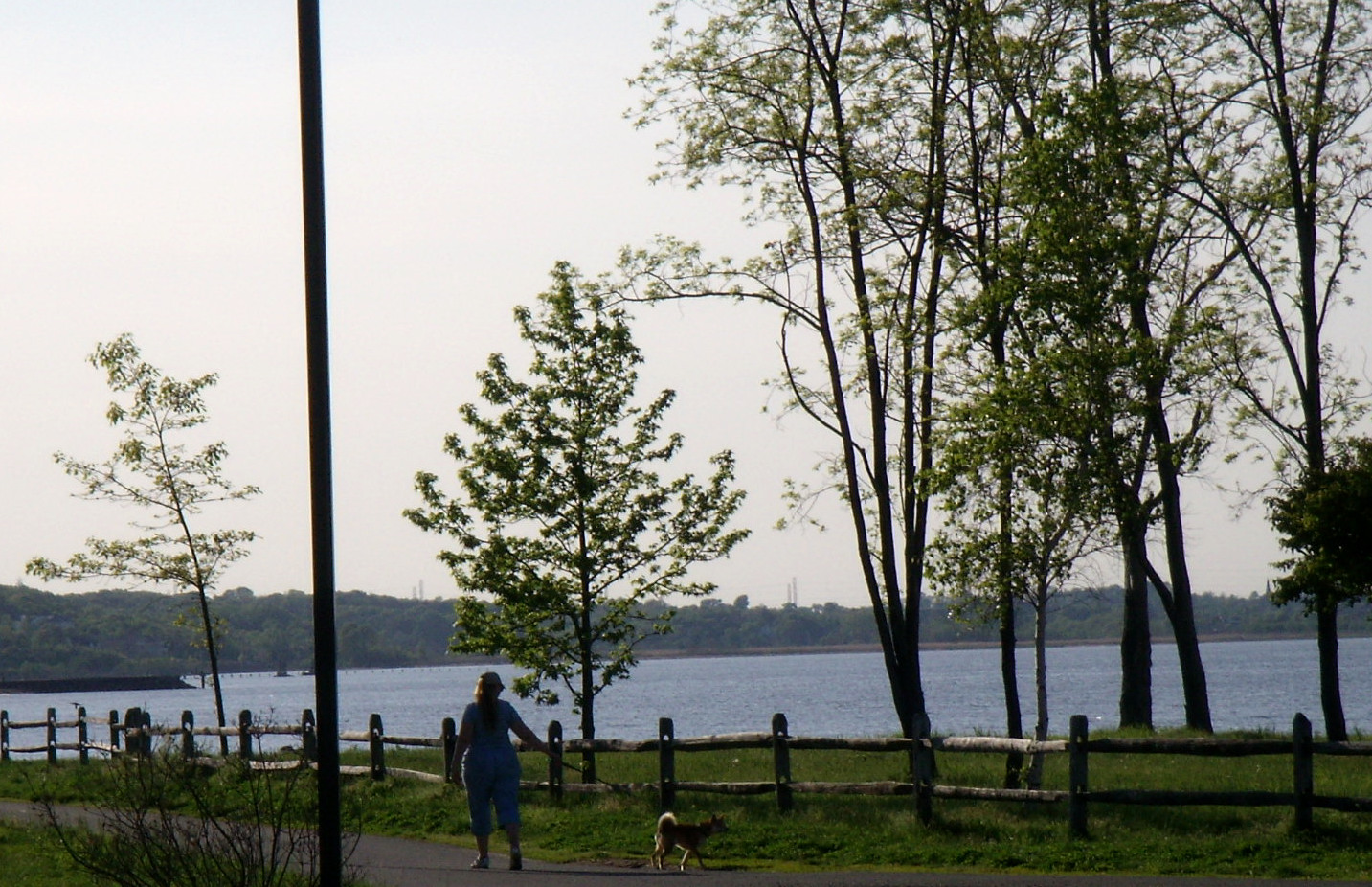 Photograph of Laurence Harbor Waterfront Park in Laurence Harbor, NJ, taken by Pat Noble in May 2007.